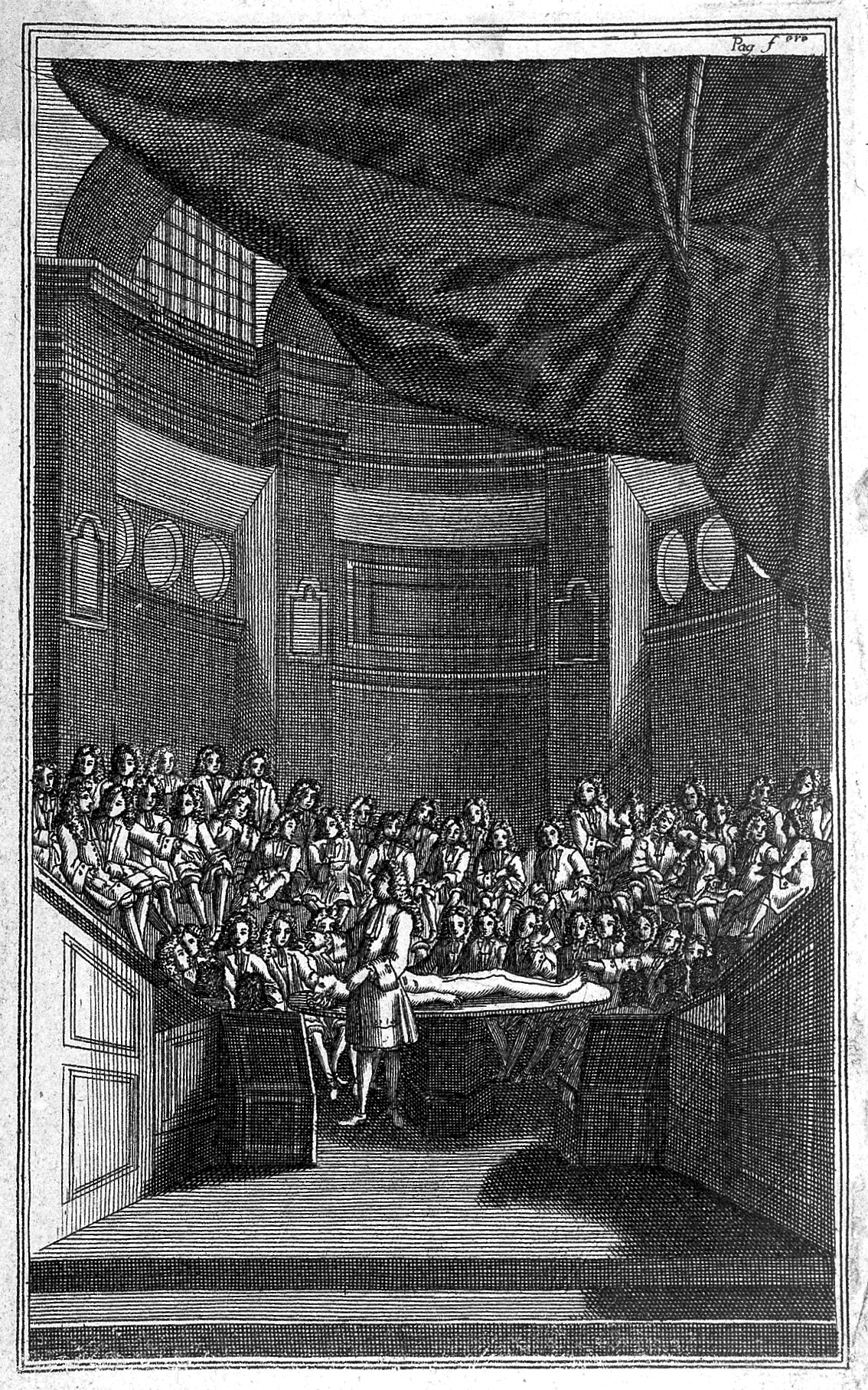 Pierre Dionis conducting a dissection in the anatomy theatre of St. Cosmas. Instruments "pour la Lithotomie" (lithotomy) Iconographic Collections Keywords: lithotomy; surgery, 17th century; Pierre Dionis; Jean-Baptiste Scotin